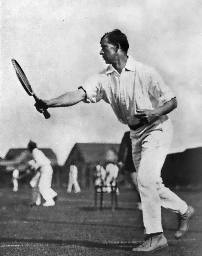 Portrait of William Augustus Larned circa 1910. Caption:"Mr. W. A. Larned - who has, for the fifth time, won the tennis championship of America."